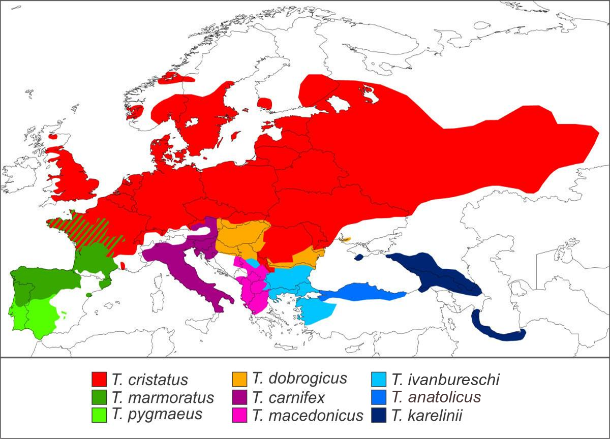 Map showing the distribution of Triturus , the marbled and crested newts. Modified from (originial source Ben Wielstra & Jan W. Arntzen, to account for the revision of the Triturus karelinii group with the description of T. ivanbureschi (Wielstra et al. 2013, Zootaxa, and T. anatolicus (Wielstra & Arntzen 2016, Zootaxa